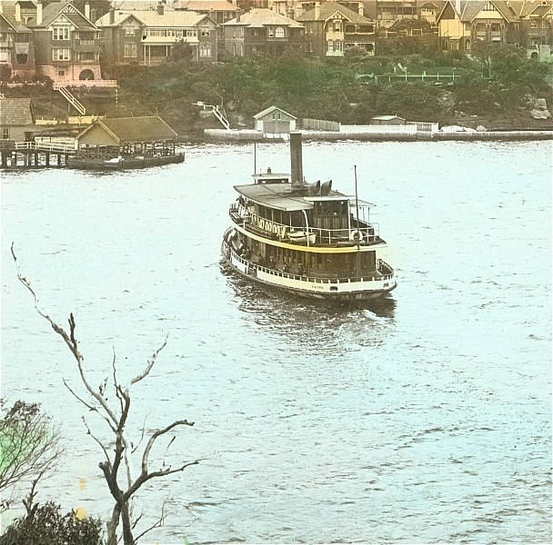 Ferry 'Kangaroo' Neutral Bay This image forms part of the digitised photographs of the Ross and Pat Craig Collection. Ross Craig (1926-2012) was a local historian born in Stockton and dedicated much of his life promoting and conserving the history of Stockton, NSW. He possessed a wealth of knowledge about the suburb and was a founding member of the Stockton Historical Society and co-editor of its magazine. Pat Craig supported her husband’s passion for history, and together they made a great contribution to the Stockton and Newcastle communities. We thank the Craig Family and Stockton Historical Society who have kindly given Cultural Collections at the University of Newcastle, NSW, Australia, access to the collection and allowed us to publish the images. Thanks also to Vera Deacon for her liaison in attaining this important collection. Please contact Cultural Collections at the University of Newcastle, NSW, Australia, if you are the subject of the image, or know the subject of the image, and have cultural or other reservations about the image being displayed on this website and would like to discuss this with us. Some of the images were scanned from original photographs in the collection held at Cultural Collections, other images were already digitised with no provenance recorded. You are welcome to freely use the images for study and personal research purposes. Please acknowledge as “Courtesy of the Ross and Pat Craig Collection, University of Newcastle (Australia)" For commercial requests please consider making a donation to the Vera Deacon Regional History Fund. These images are provided free of charge to the global community thanks to the generosity of the Vera Deacon Regional History Fund. If you wish to donate to the Vera Deacon Fund please download a form here